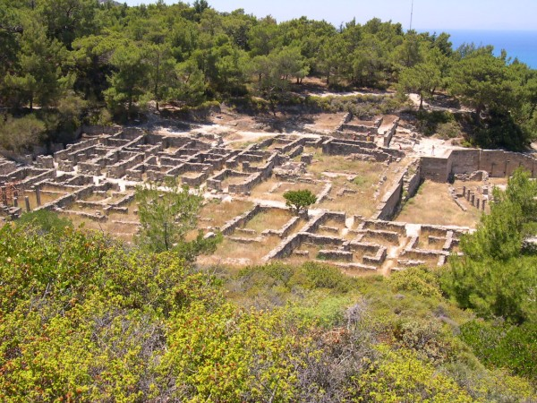 Ruins of the ancient Greek city of Kameiros, Rhodes Island, Greece.